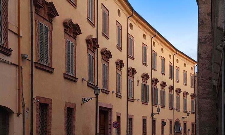 Palazzo Manassei (XIV-XVII secolo)